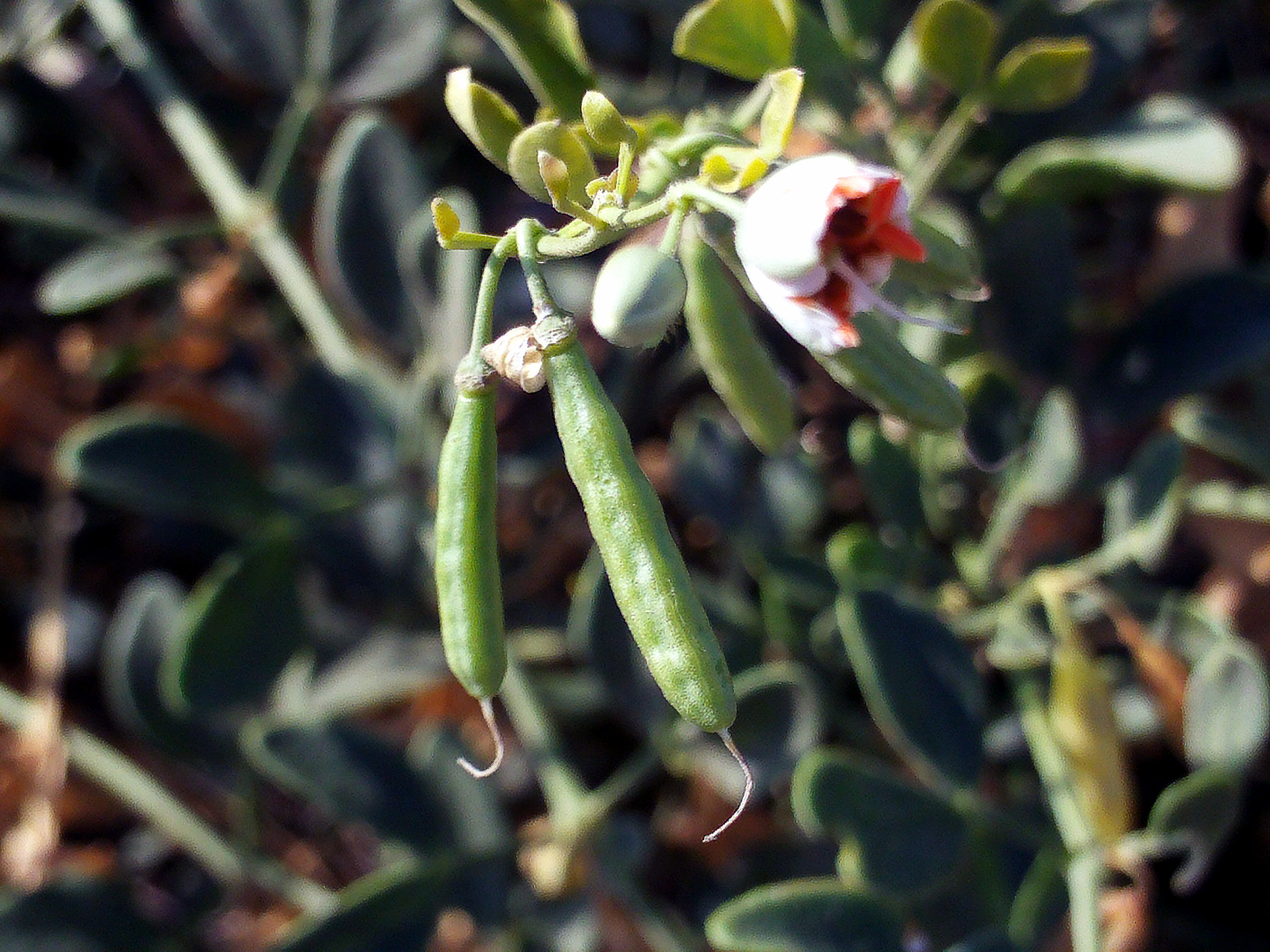 Zygophyllum fabago invasive plant, flowers and fruits, Torrelamata, Torrevieja, Alicante, Spain